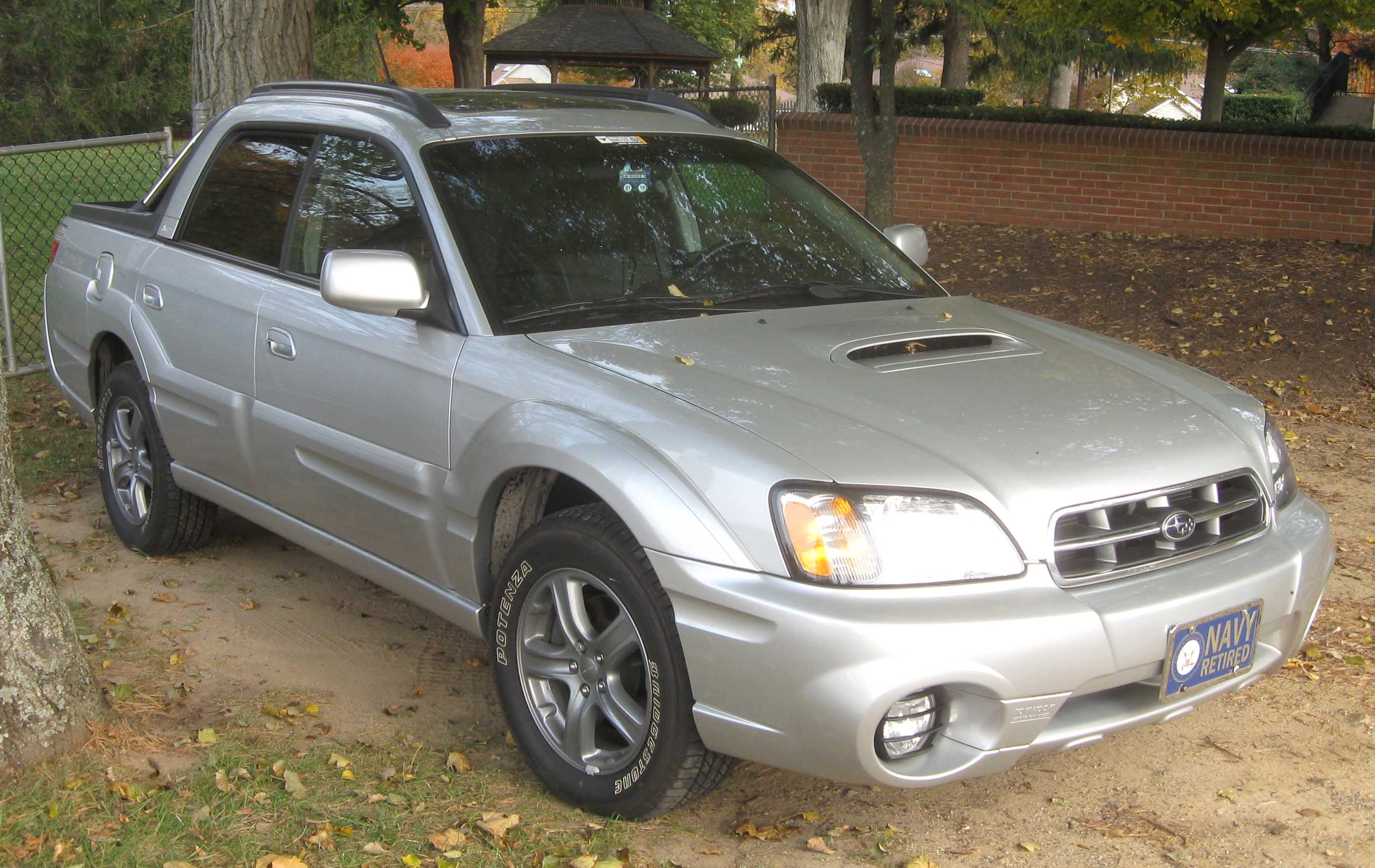 2004-2006 Subaru Baja photographed in Olney, Maryland, USA.